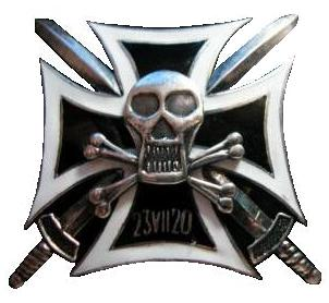 Polish Death Husar Insignia 1920. Source Na podstawie M. Gajewski, „Huzarzy śmierci wojny 1920 roku”, 1996 wydane przez Muzeum Wojska w Białymstoku Odkrywca", 8/2005, M. Gajewski "Huzarzy Śmierci wojny 1920 roku") Zdzisław Sawicki, Adam Wielechowski, “Dokumenty i odznaki Wojska Polskiego 1918-1945″, Warszawa 2008.